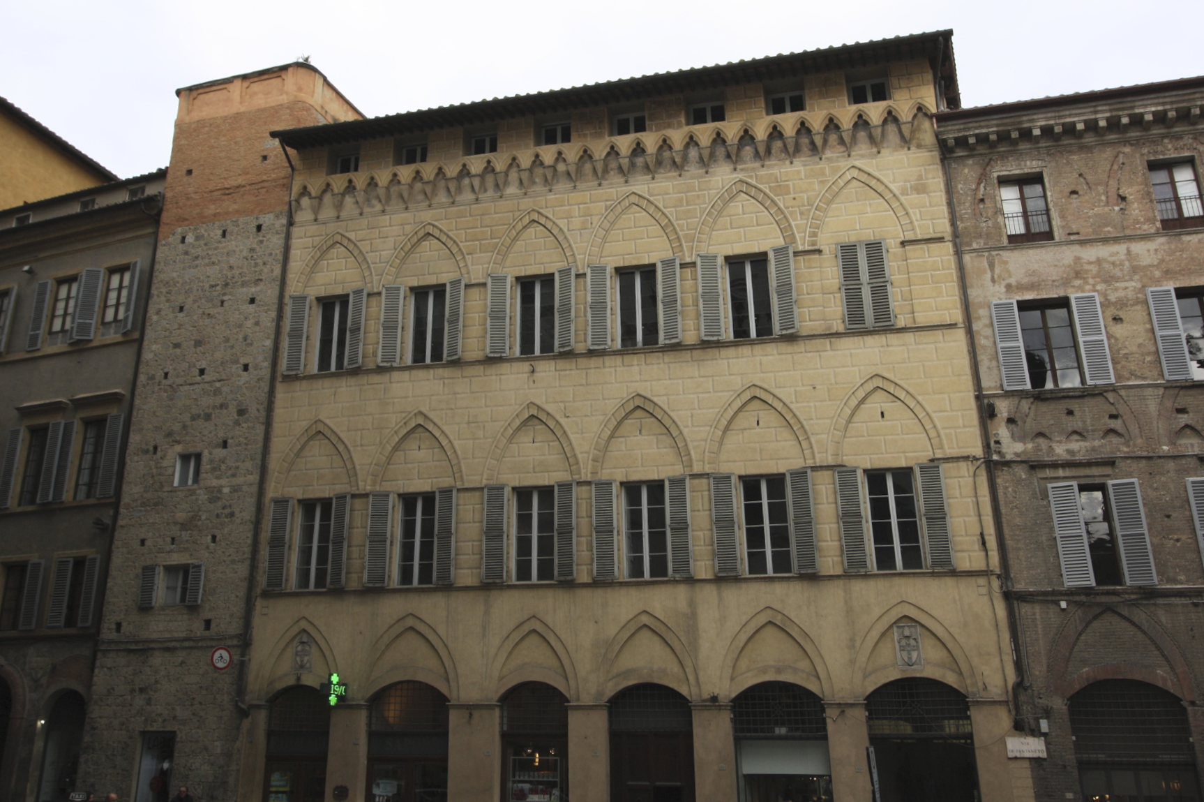 Palazzo Piccolomini-Clementini, Banchi di Sotto, Terzo di San Martino, Siena, Province of Siena, Tuscany, Italy